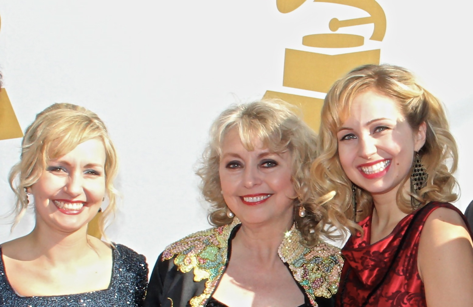 Taken at the Wilshire Ebell in Los Angeles, accepting the Grammy Tech Award for Roger Nichols.